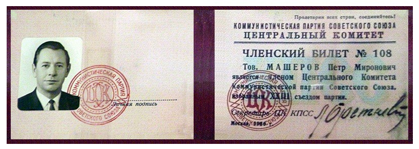 Identity cards - Document of the Central Committee of the Communist party of the Soviet Union (CPSU) , issued in 1966